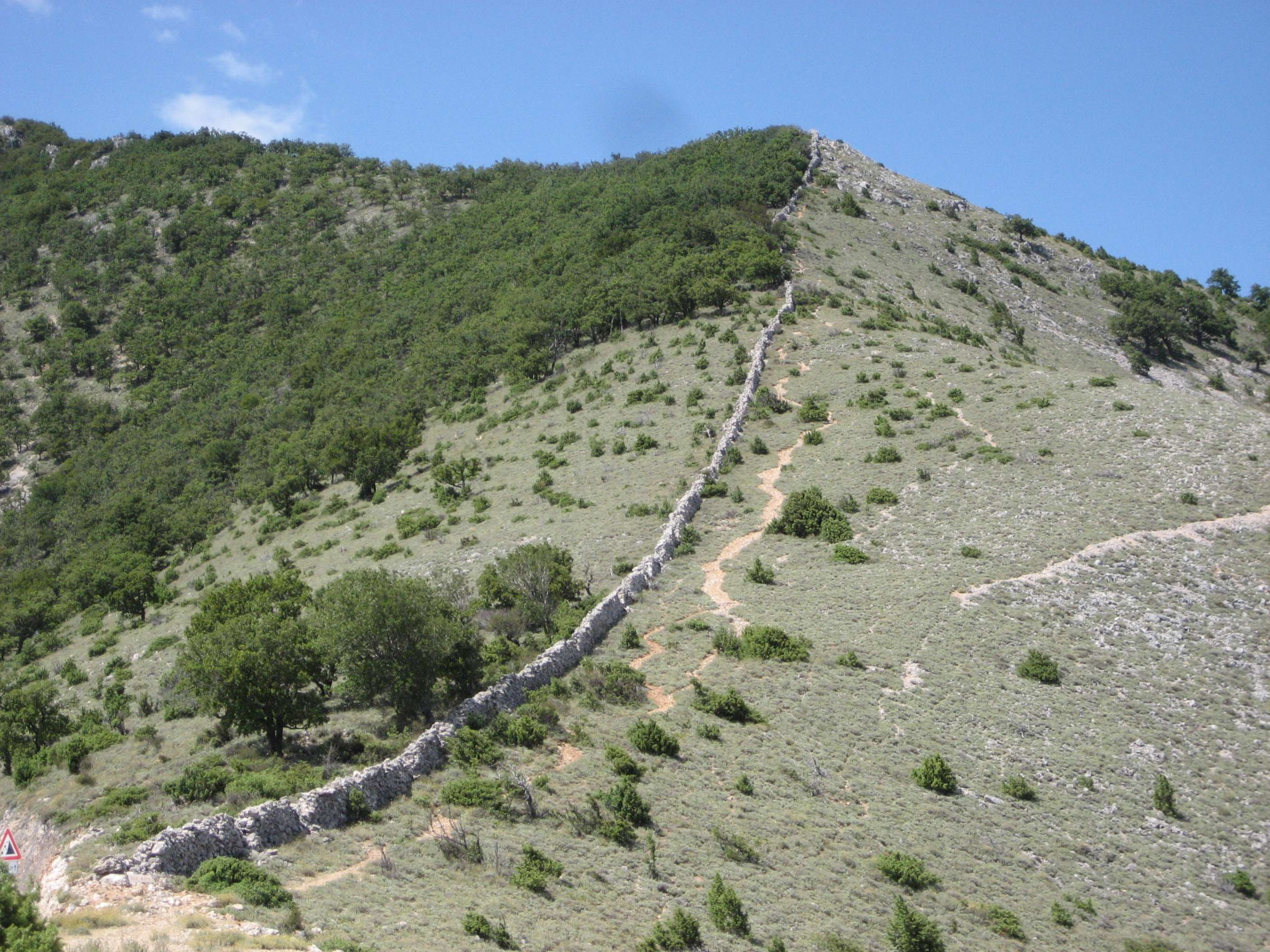 Dry stone walls in Croatia